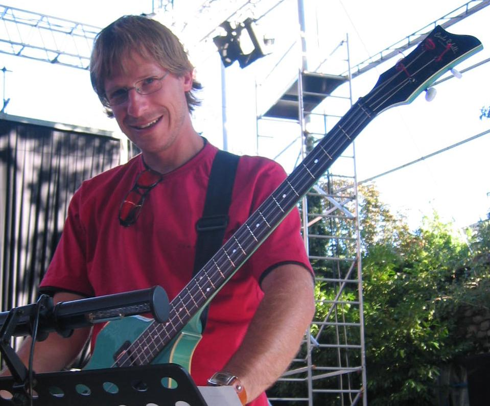 Žiga Golob, slovenian musician (double bass and bass-guitar player)